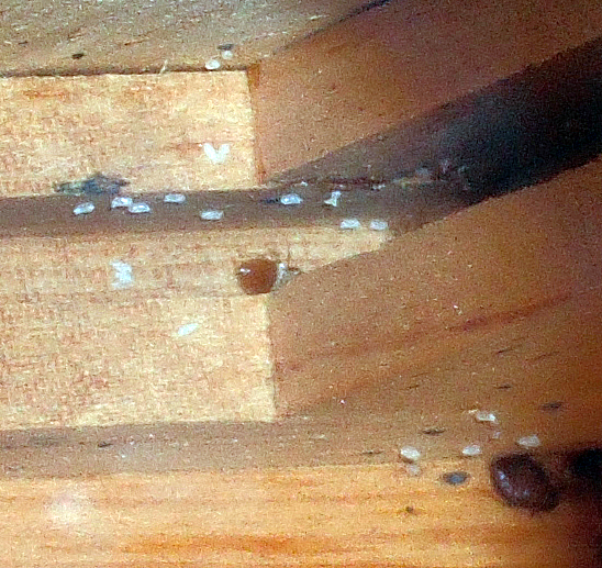 A cluster of bed bug eggs and two adult bed bugs, from inside a dresser that had been standing next to a bed.